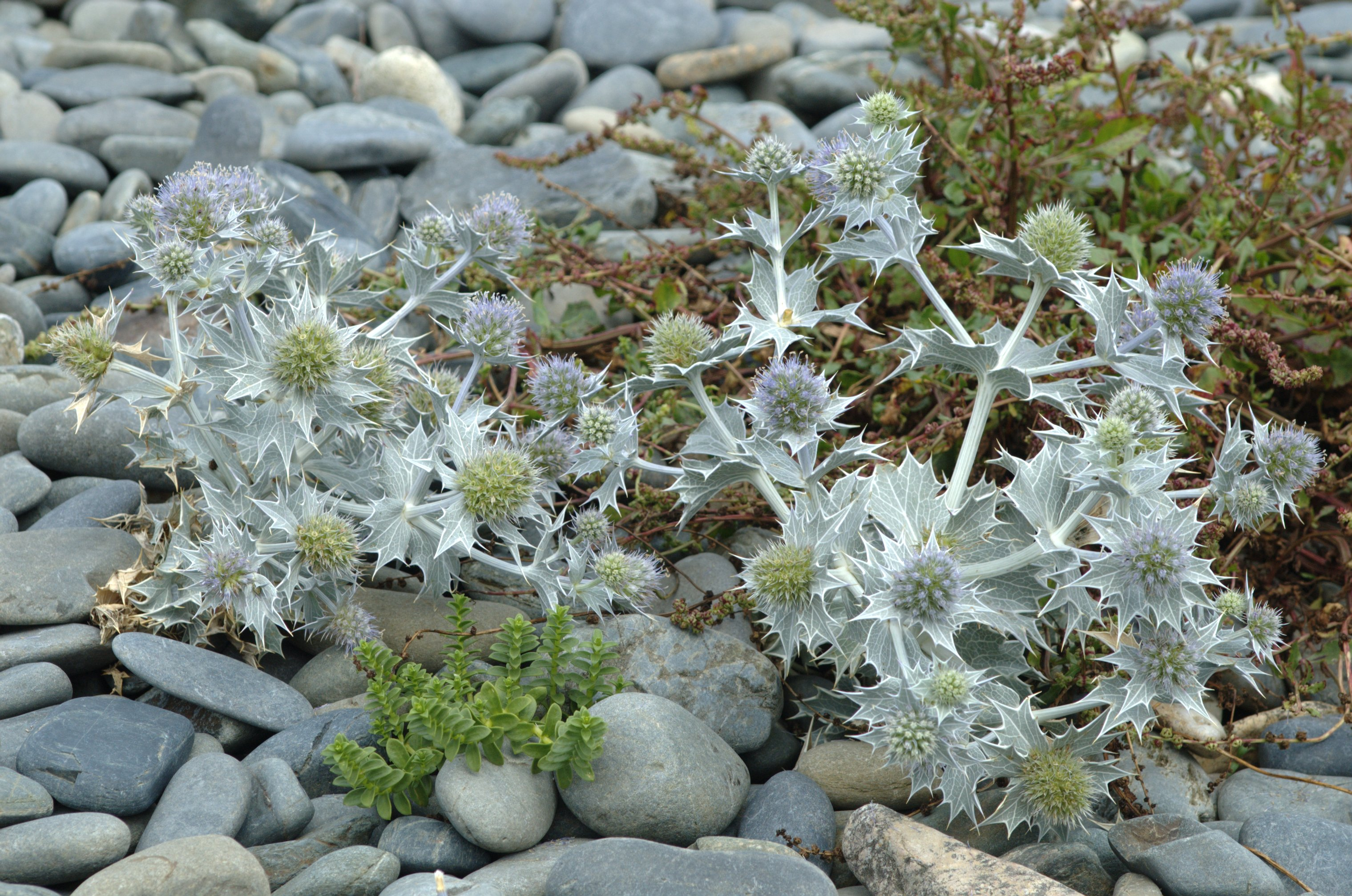 Eryngium maritimum - Les Rosaires-France july 2004 - plant